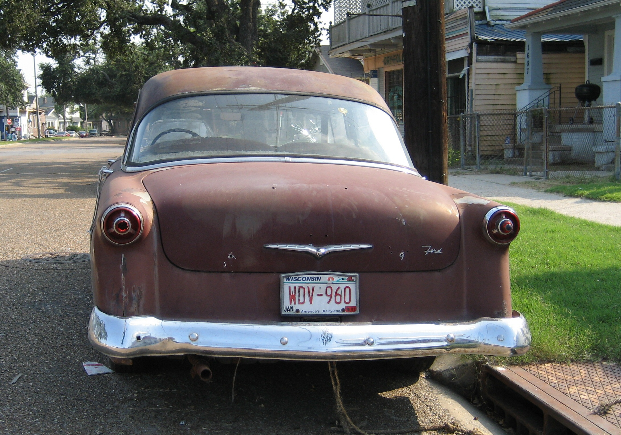 1954 Ford Mainline seen in Bayou St. John neighborhood of New Orleans.